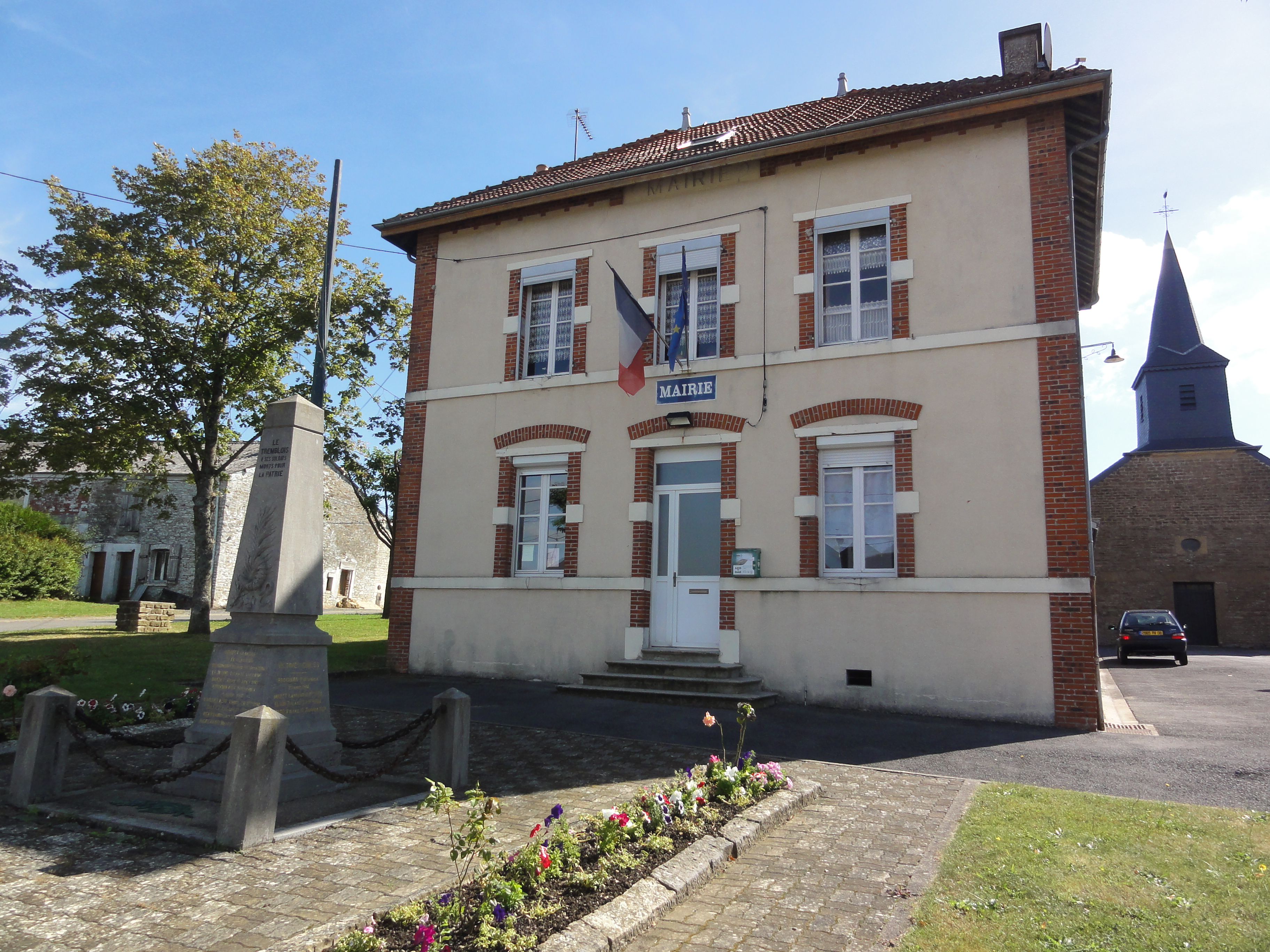 Tremblois-lès-Rocroi (Ardennes) mairie